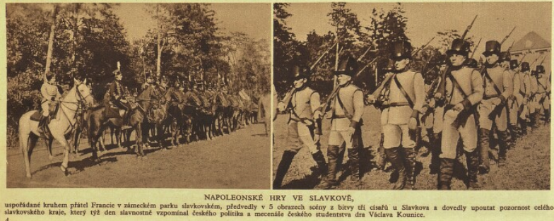 Napoleon games, Austerlitz (Slavkov) 1935